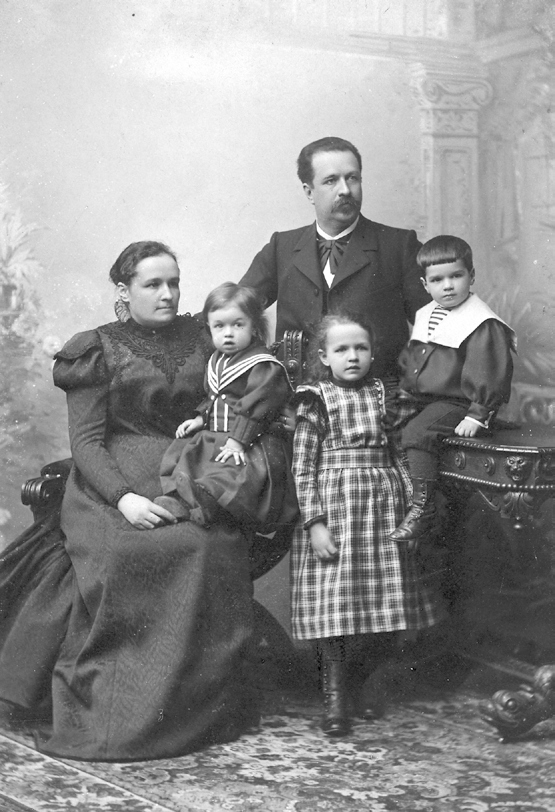 Photograph of the Finnish physician Kaarlo (Karl) Nohrström (1855–1903).